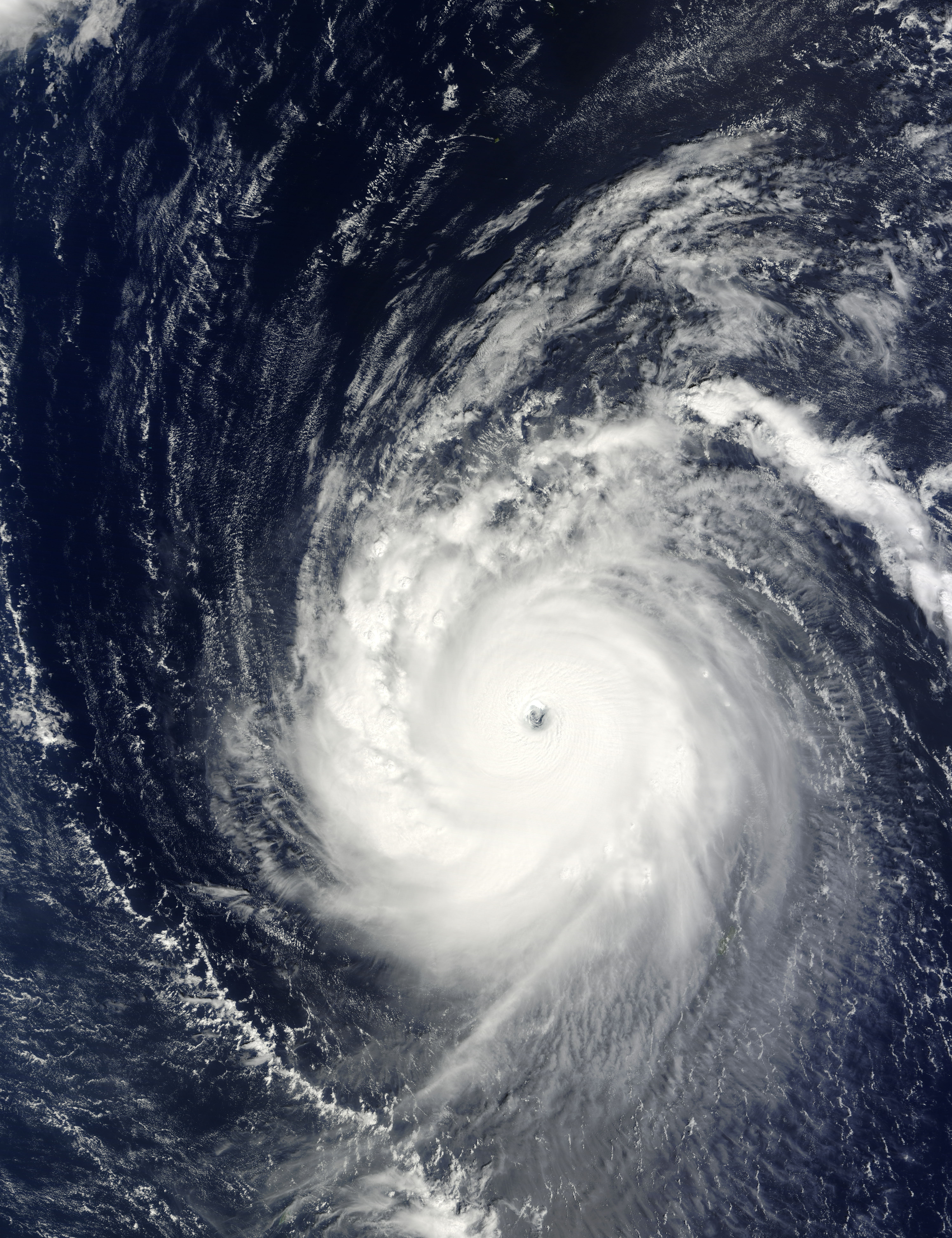 Super Typhoon Melor